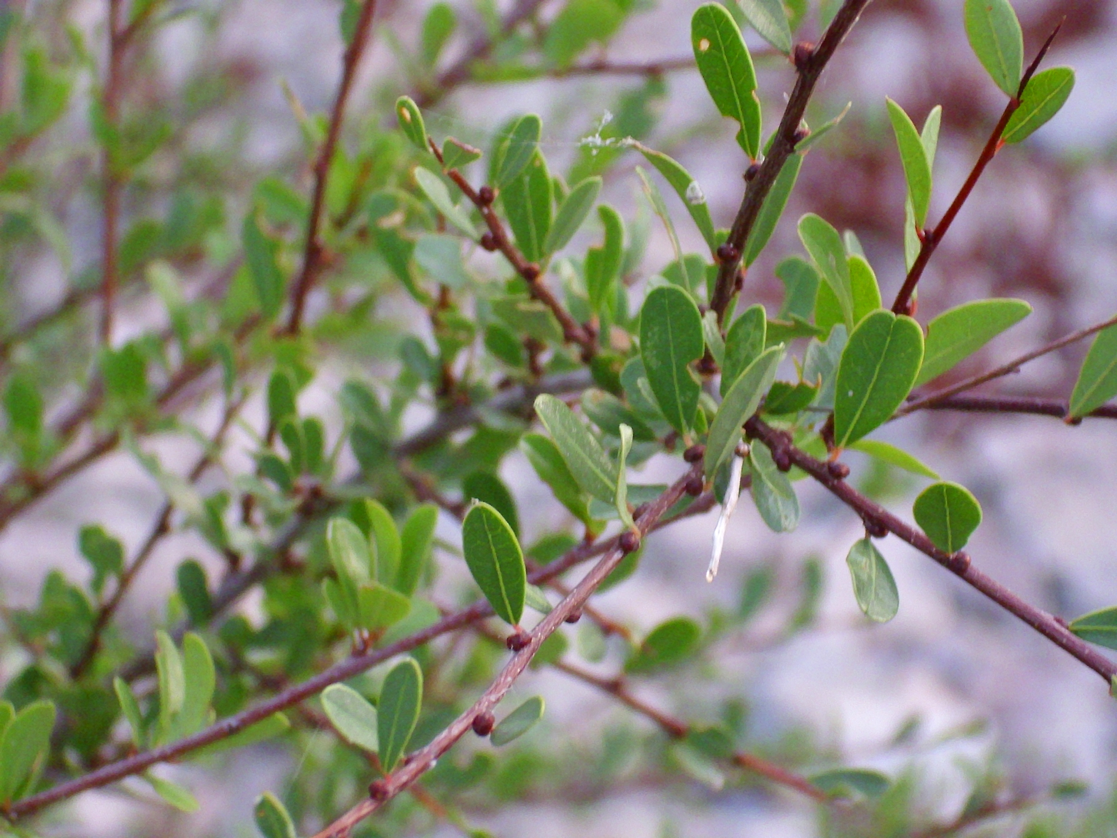 Flueggea tinctoria stem and leaves, Río Fresnedas, Spain